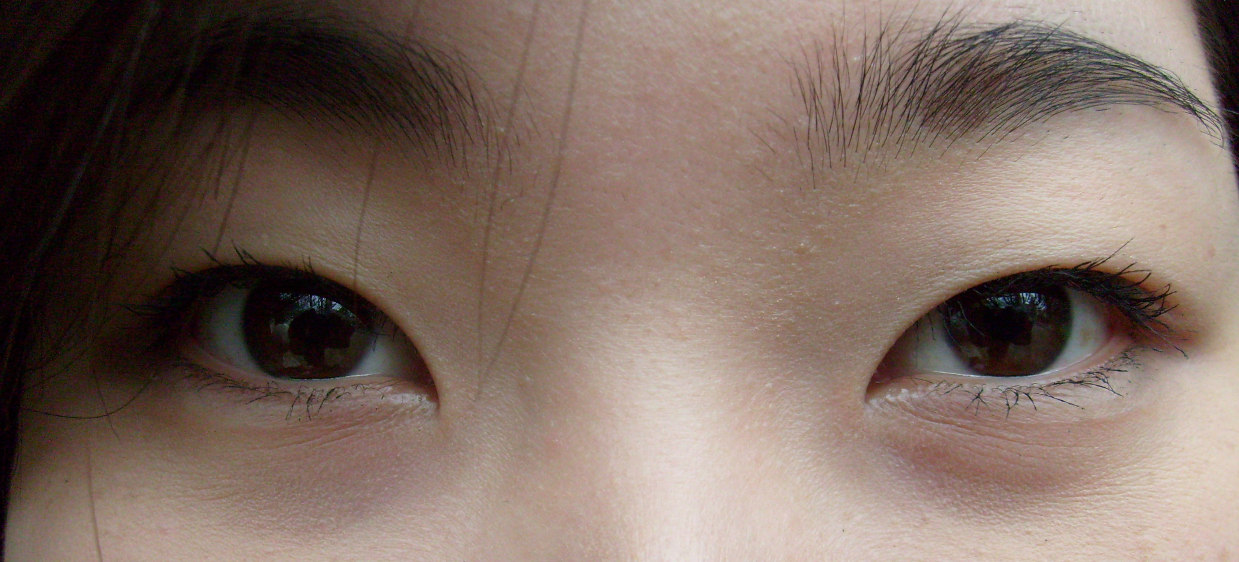 typical epicanthic fold, at a Korean woman